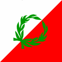 Flag